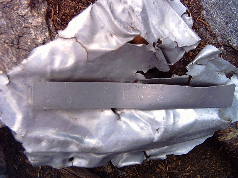 B-17 crash debris. Taken by LanceBarber.